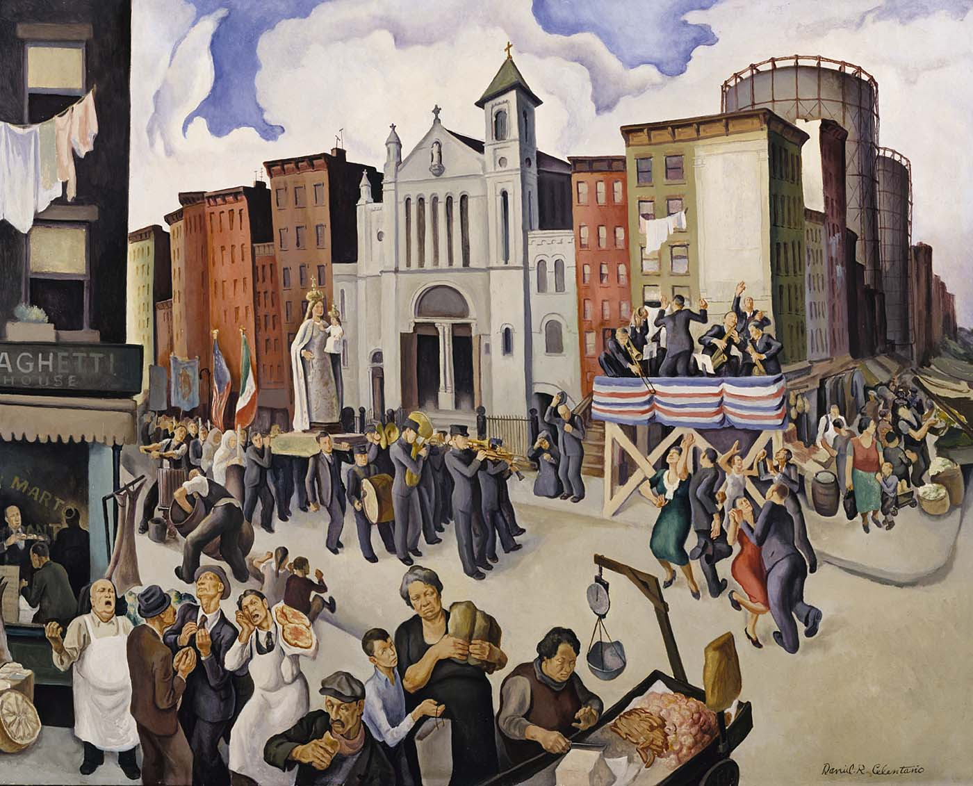 Daniel Celentano, "Festival," 1934, oil on canvas mounted on fiberboard, 48⅛ x 60⅛, (122.3 x 152.8 cm.), Smithsonian American Art Museum Transfer from the U.S. Department of Labor, created for the Public Works of Art Project of the United States Government. This painting is also called "Festa di Monte Carmela." It was included in an exhibition called "1934: A New Deal for Artists," in the Smithsonian American Art Museum.